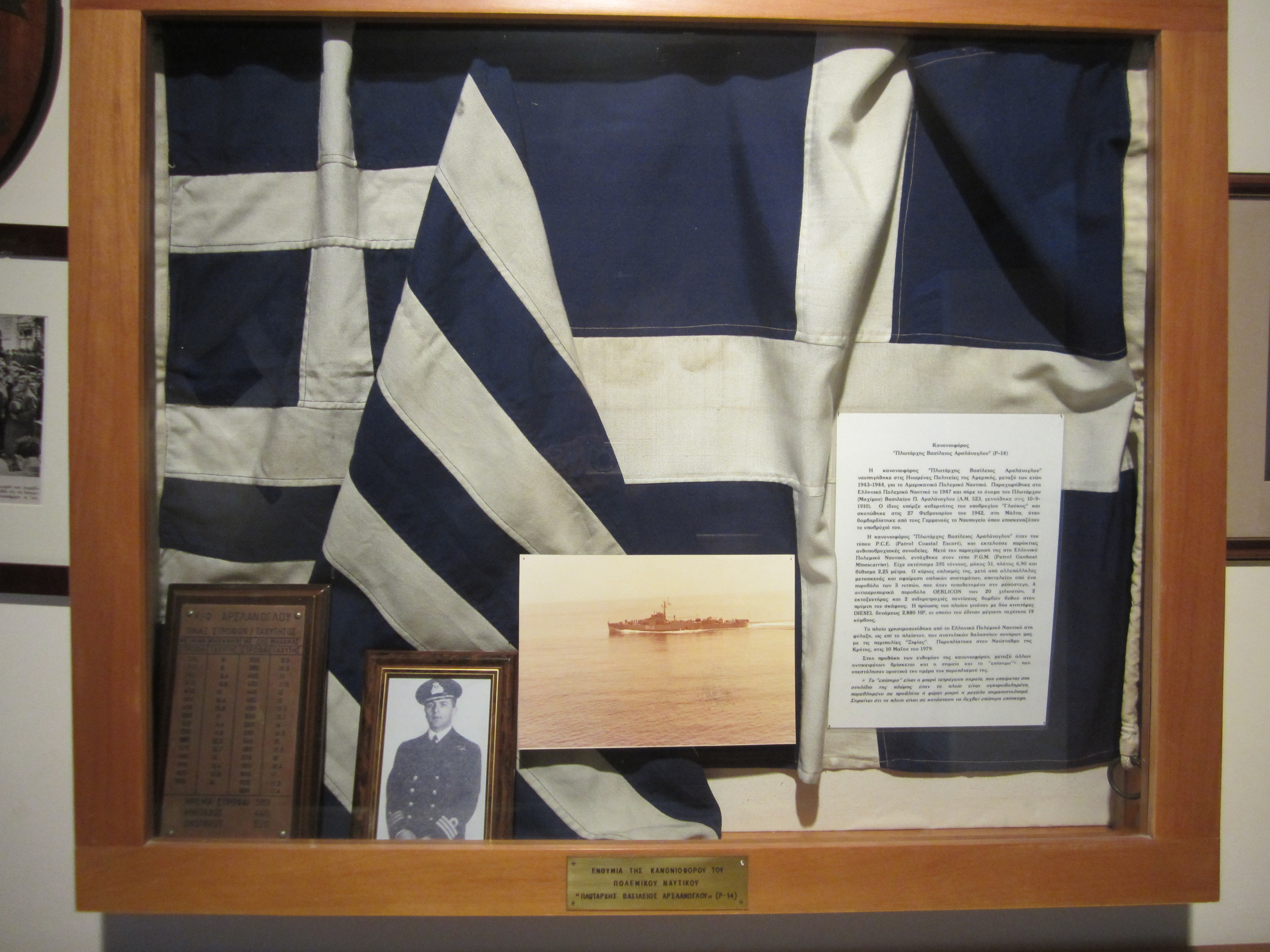 Stand with the photo of commander Vasilios Arslanoglou (1910-1942), the banner of gunboat Arslanoglou and her photo. Historical archive and museum of Hydra, Greece.